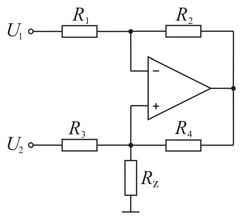 Howland current source